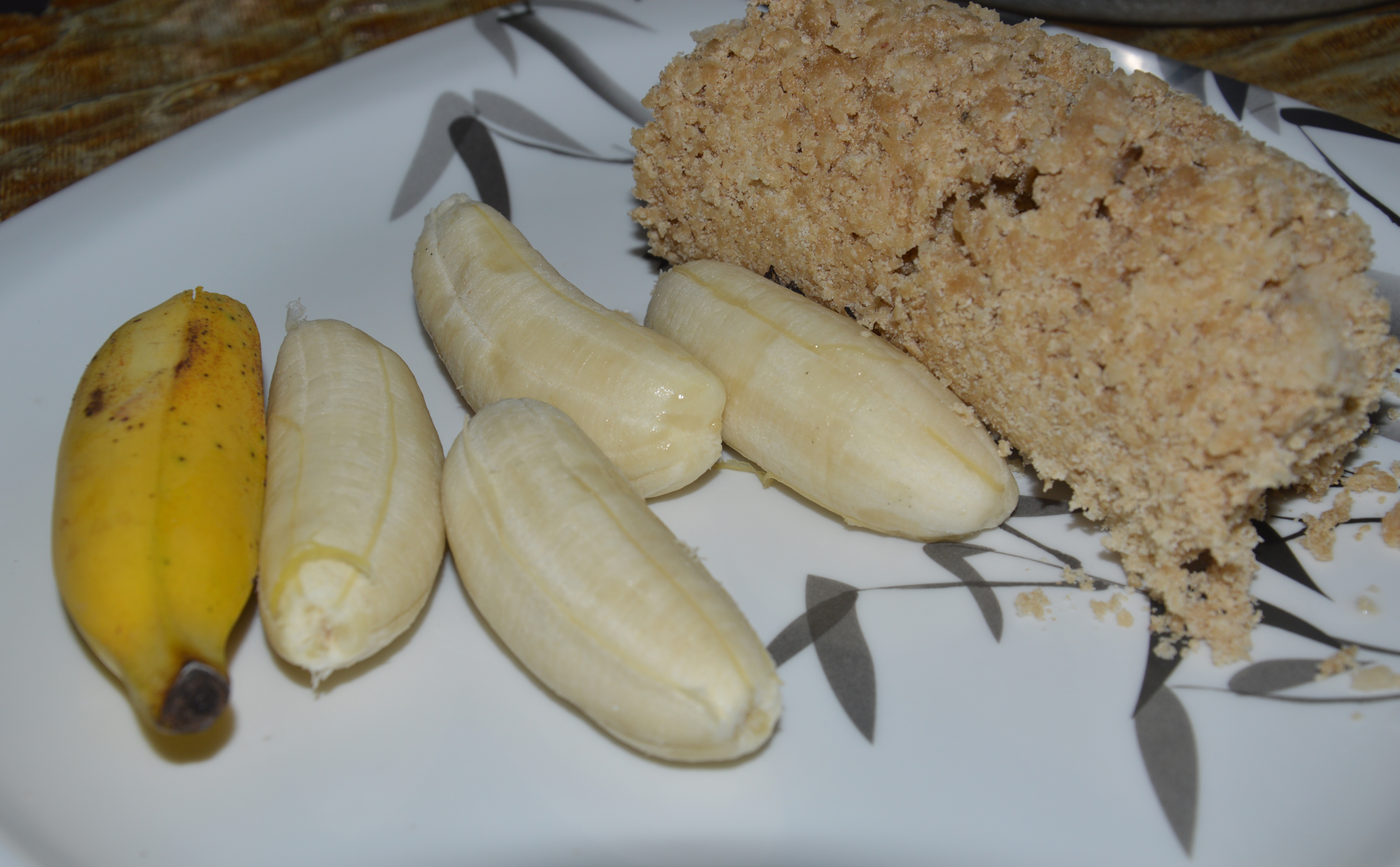 Puttu is a breakfast item in South India especially Kerala. It is a form of a rice or wheat cake made in a special cylindrical vessel. Eaten usually with banana or legumes.